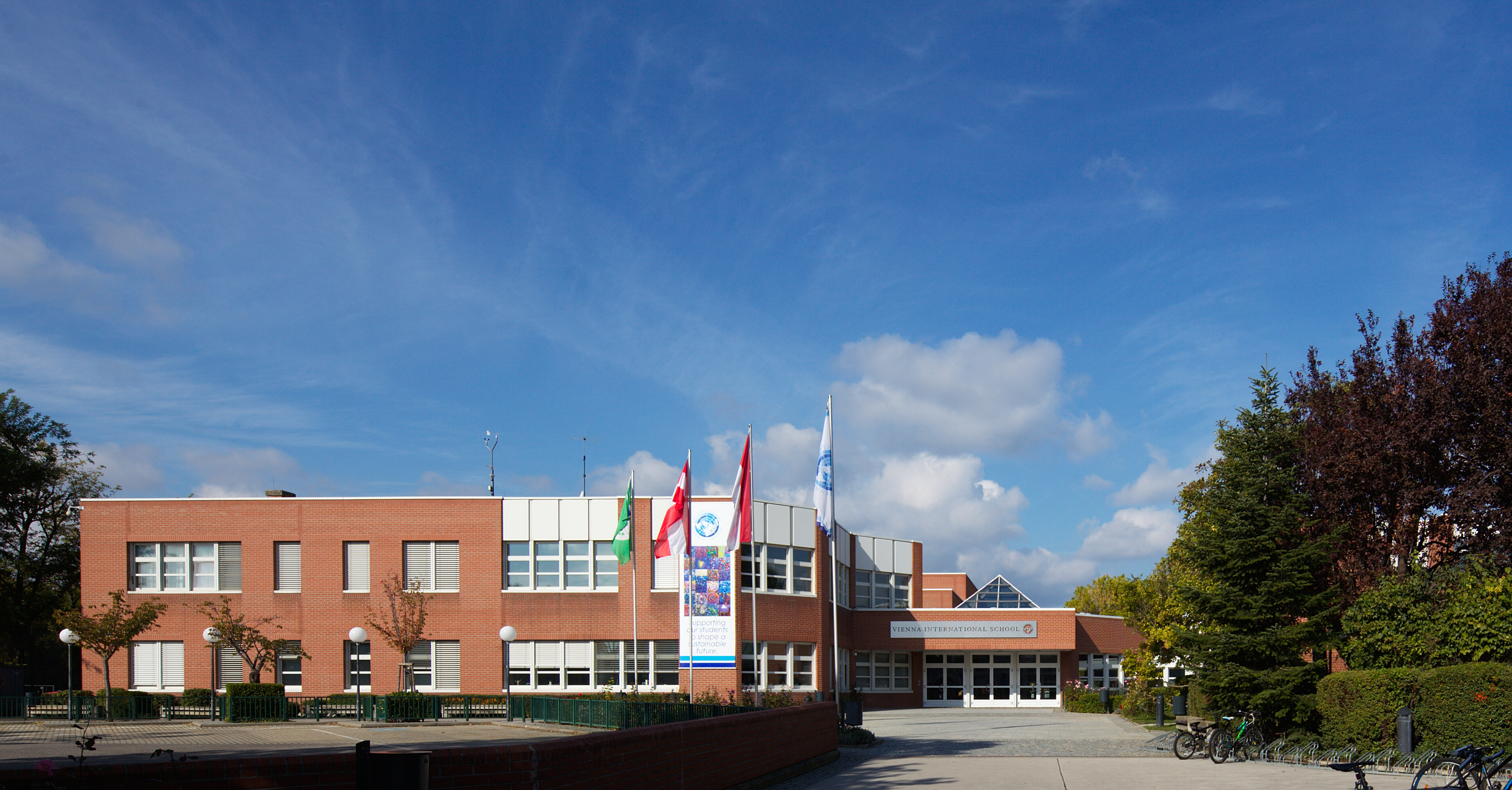 Vienna International School (VIS) in Vienna, Austria